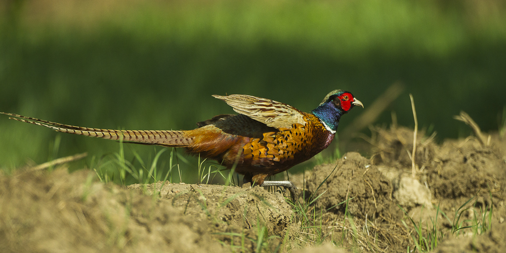 Ring-necked Pheasant - Hortobagy - Hungary_S4E4258